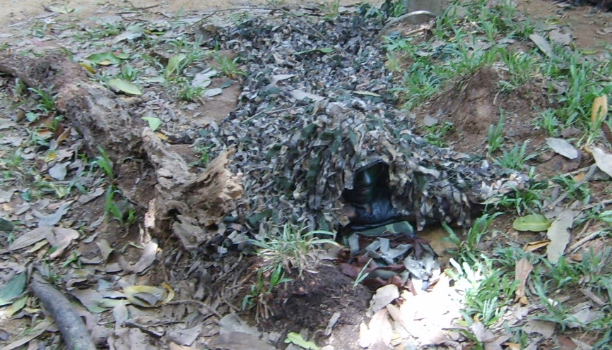 A soldier of the Sri Lanka Army Special Forces Regiment demonstrating the use of a ghillie suit for camouflage, at the Army 60th Anniversary Exhibition.